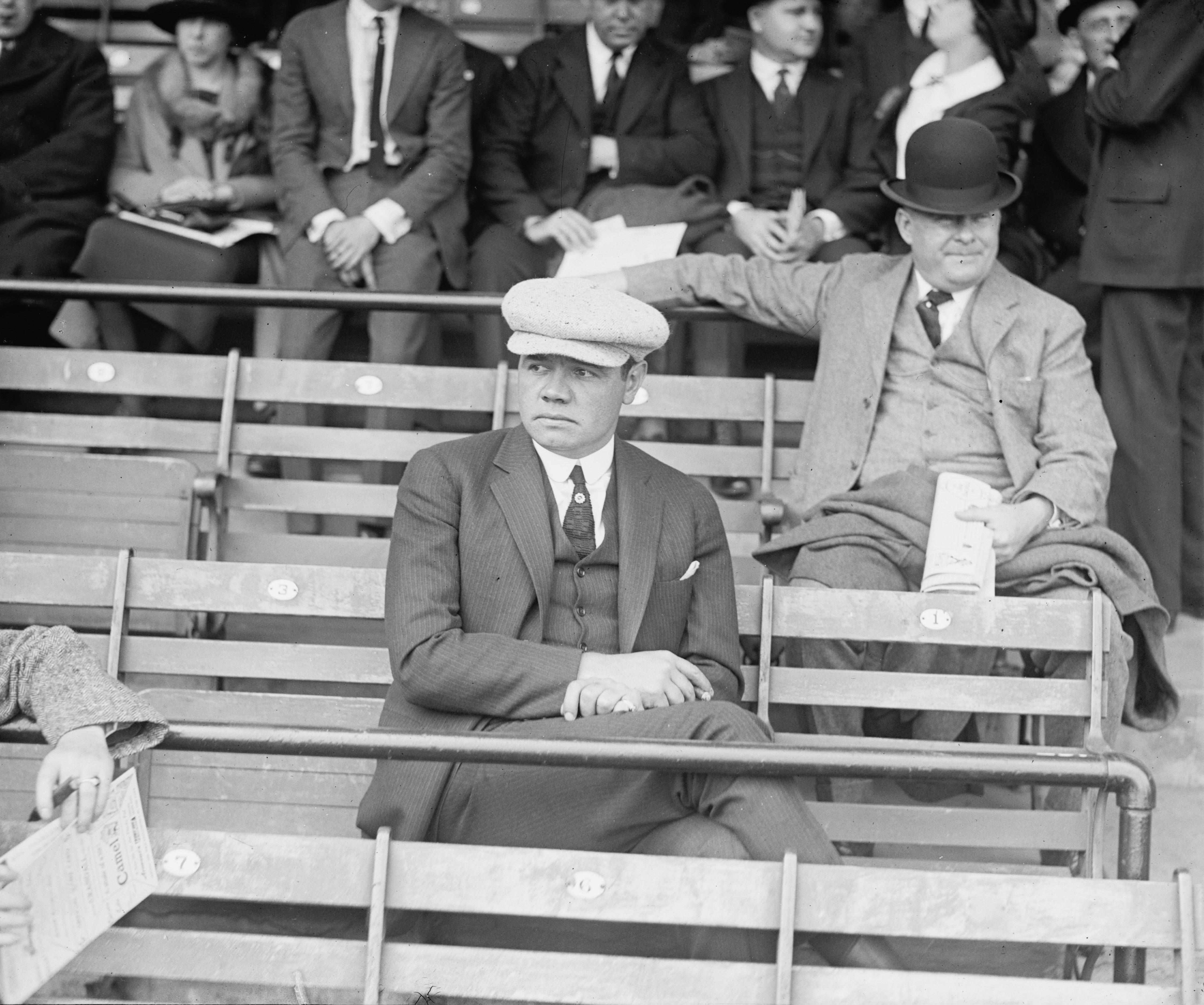 Babe Ruth, [in stands Opening Day, 4/12/22 Griffith Stadium]